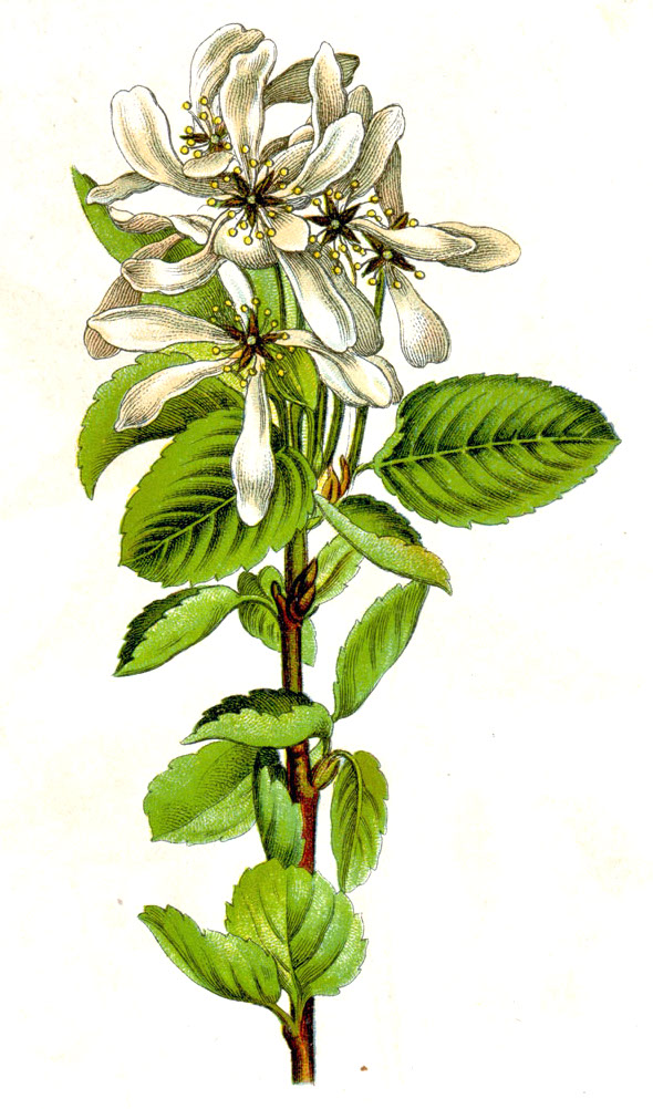 Amelanchier ovalis Medik., syn. Amelanchier vulgaris Moench Original Caption Gewöhnliche Flühbirne, Amelanchier vulgaris